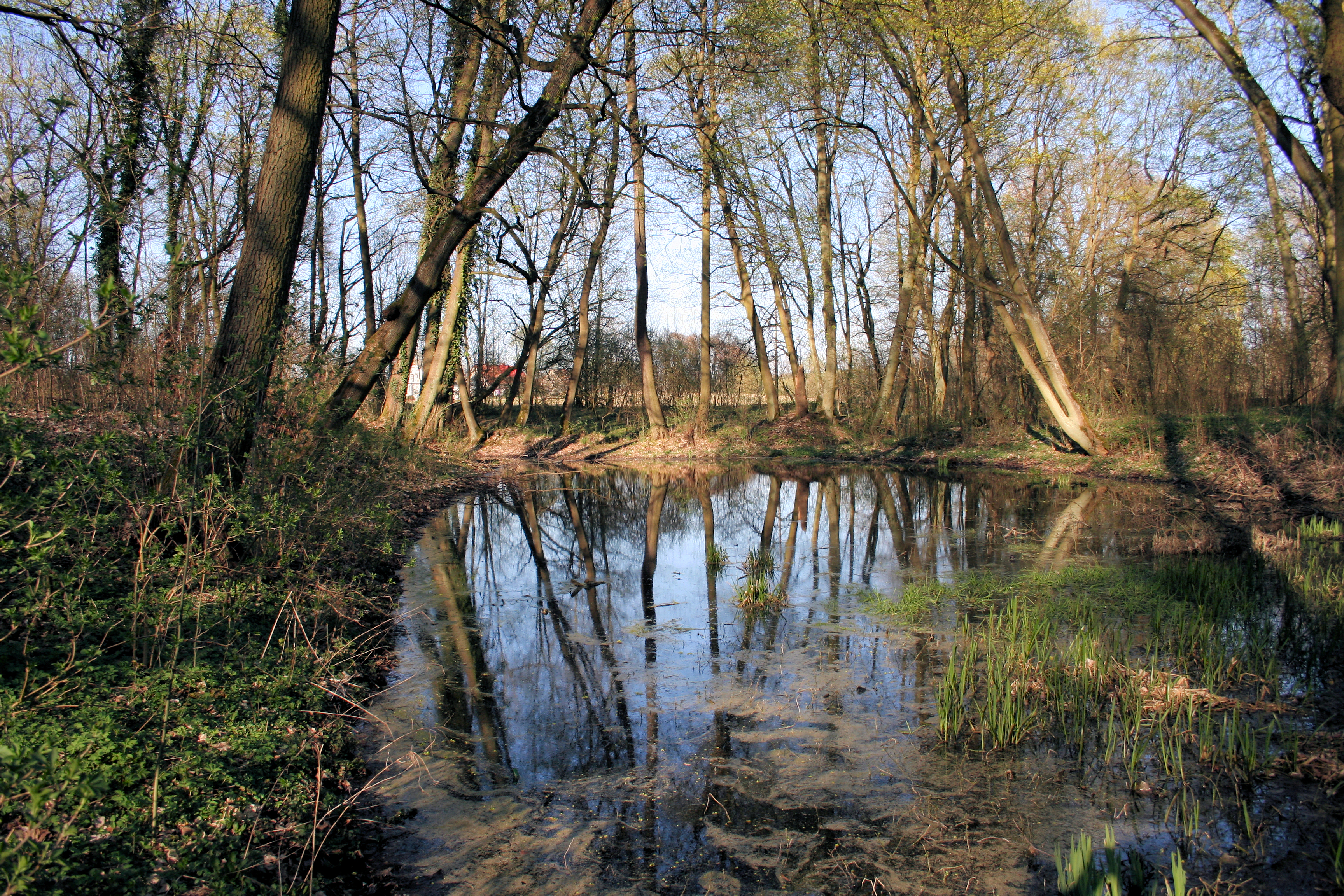 Landscape Park in Dyszno